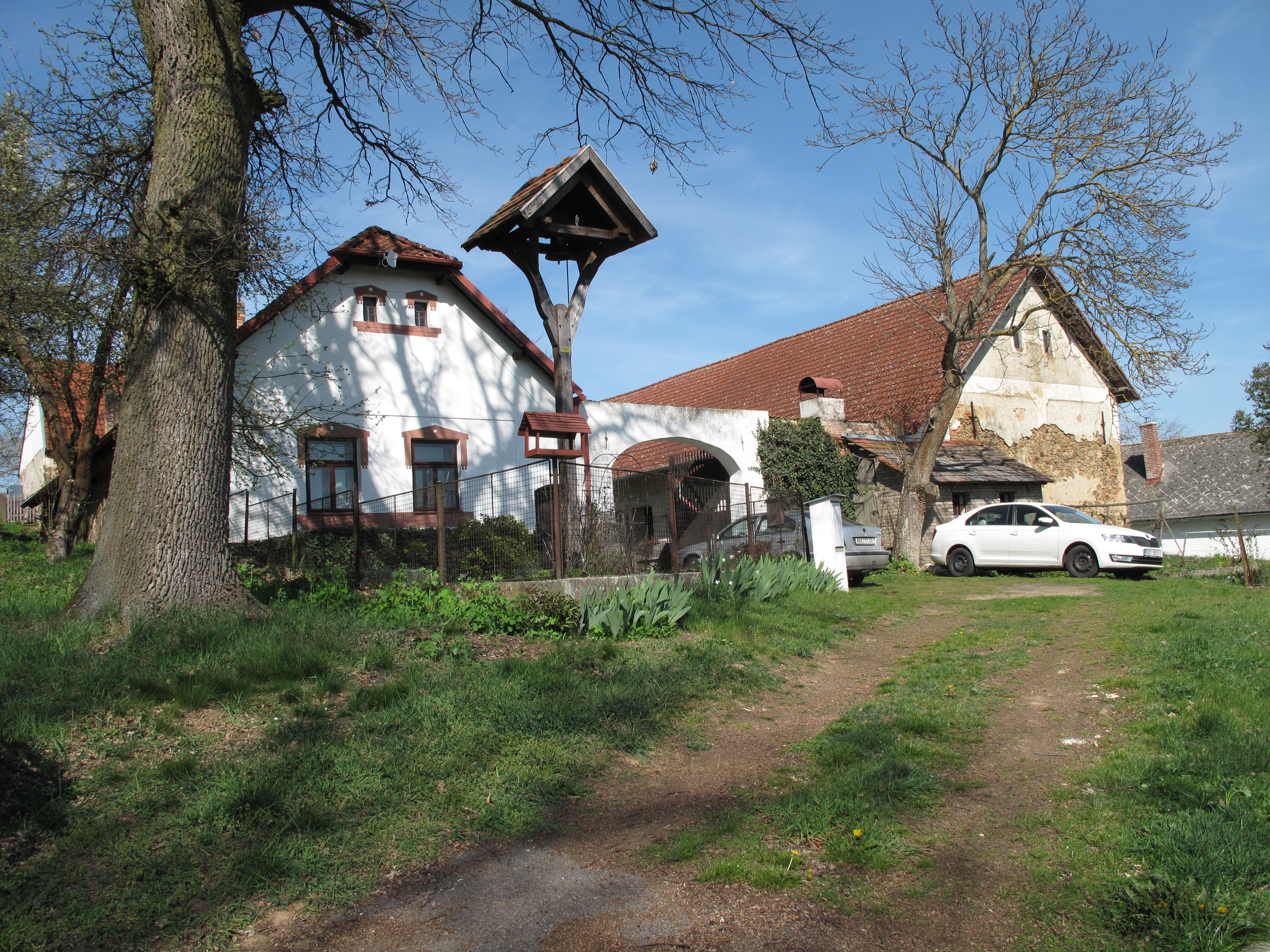 Bell tower in Hlasívko.